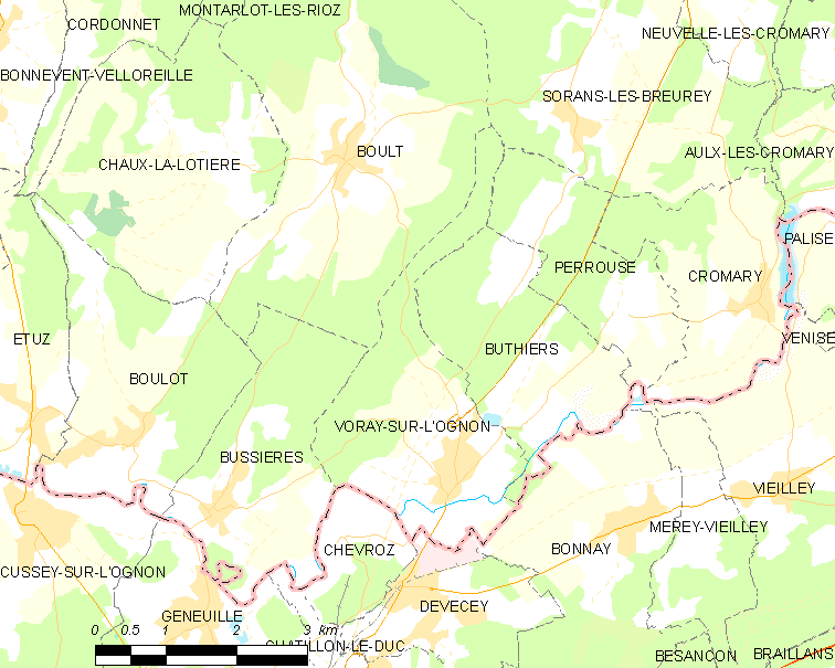 Map of French municipality